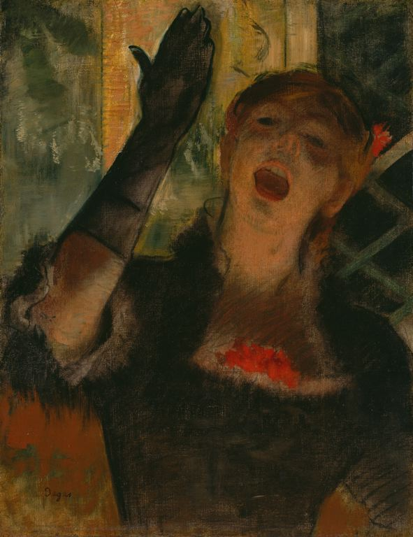 Café Singer (1879)